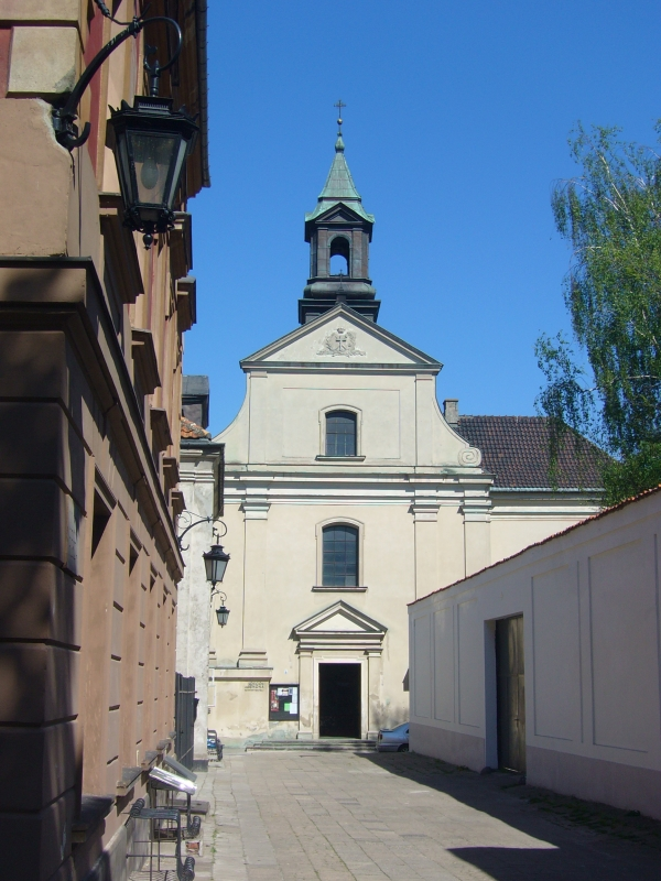 Warsaw, Church of St Benno in the New Town (former church of the Congregation of the Most Holy Redeemer). Façade.